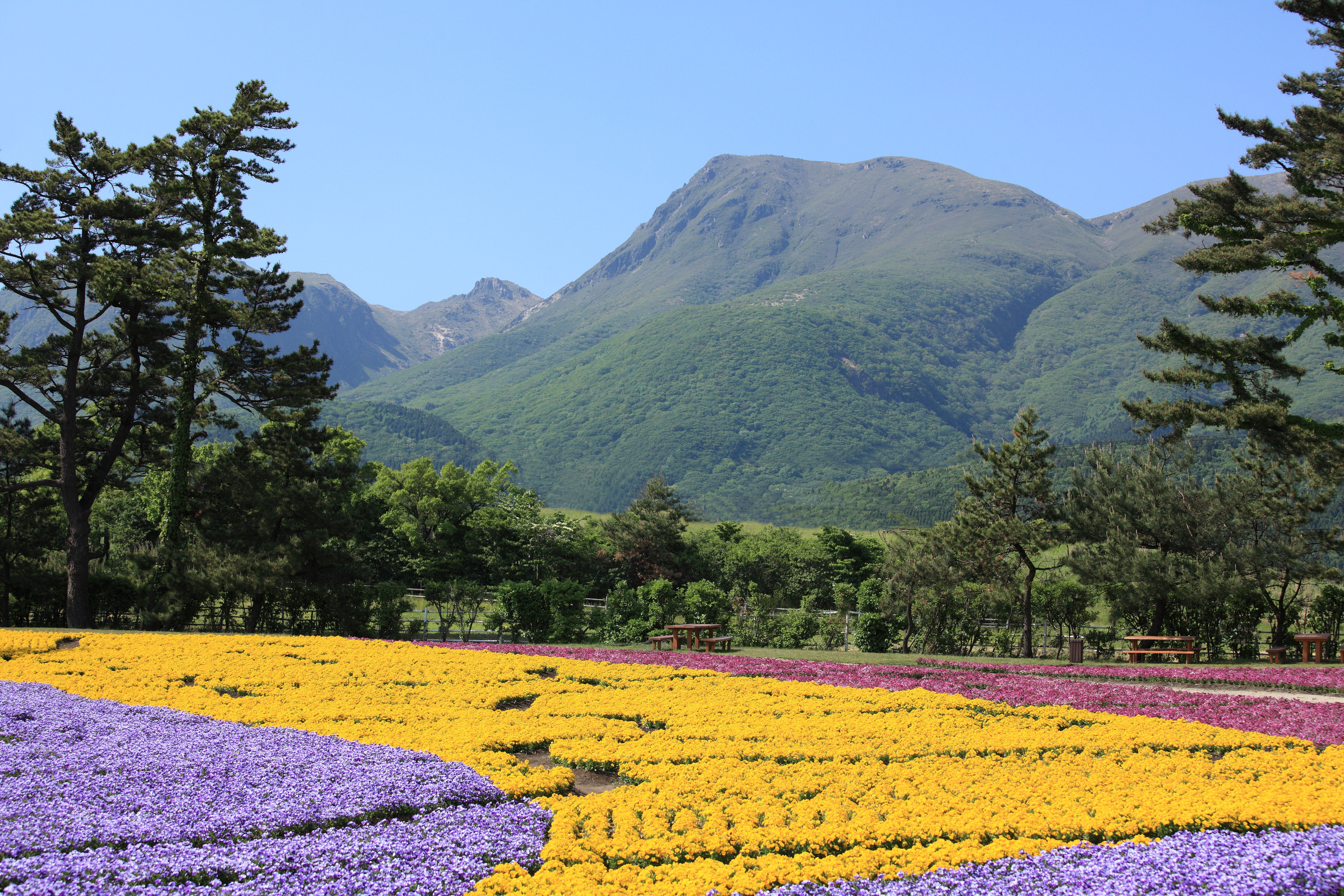 Mount Kuju as seen from the south. Shot at Kuju Hanakoen.